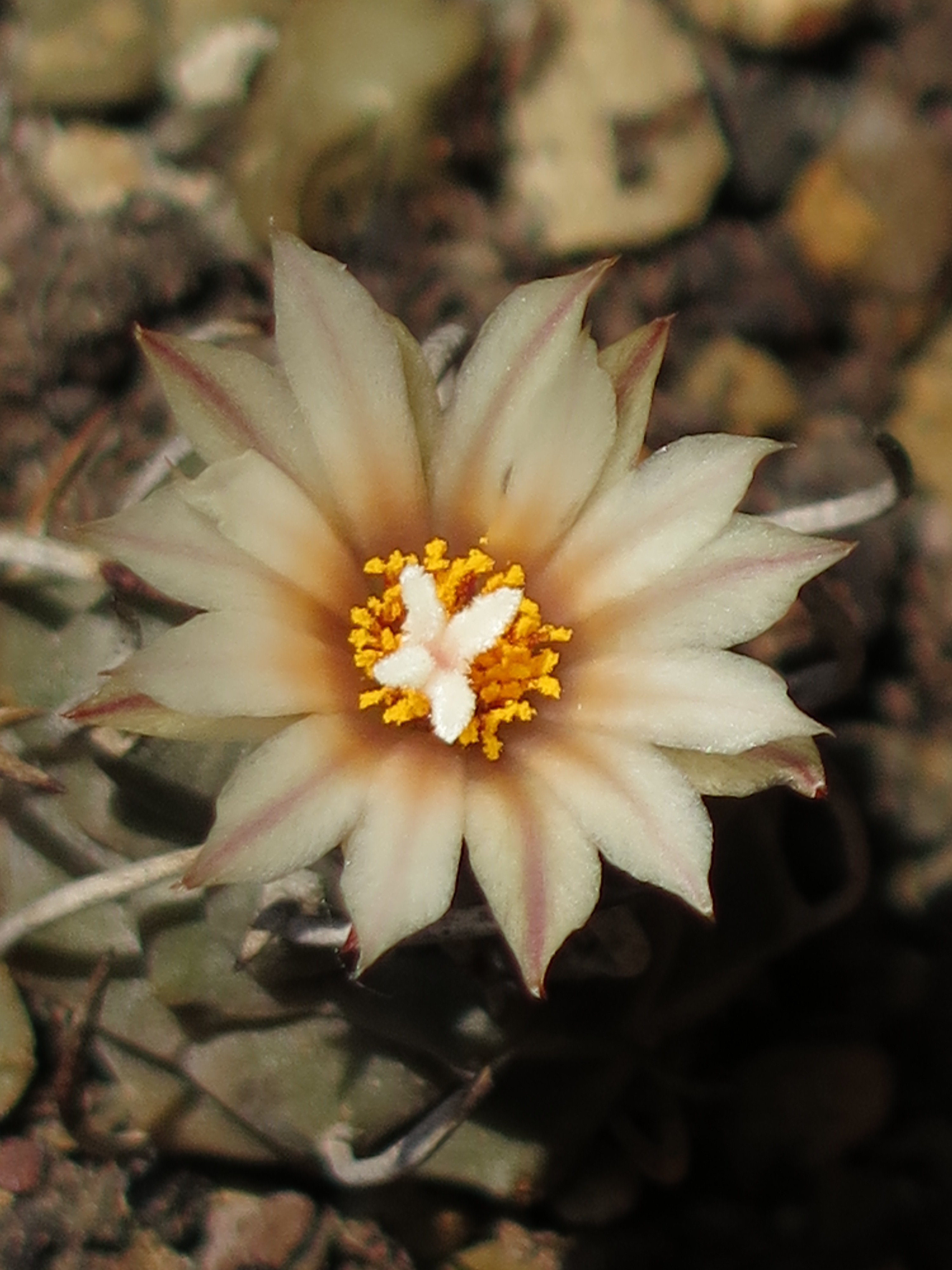 The flower of Turbinicarpus schmiedickeanus subsp. schwarzii